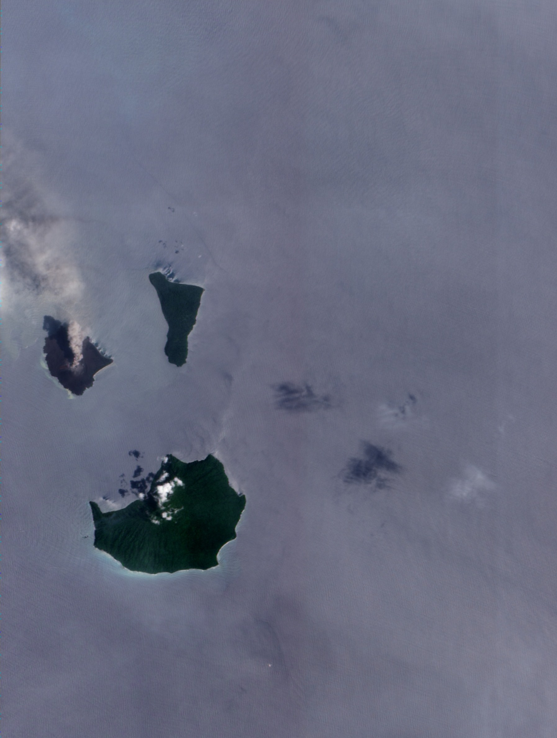 The thick brown plume of ash, steam and volcanic gas rising from Anak Krakatau in this true-colour image is a common sight at the volcano.